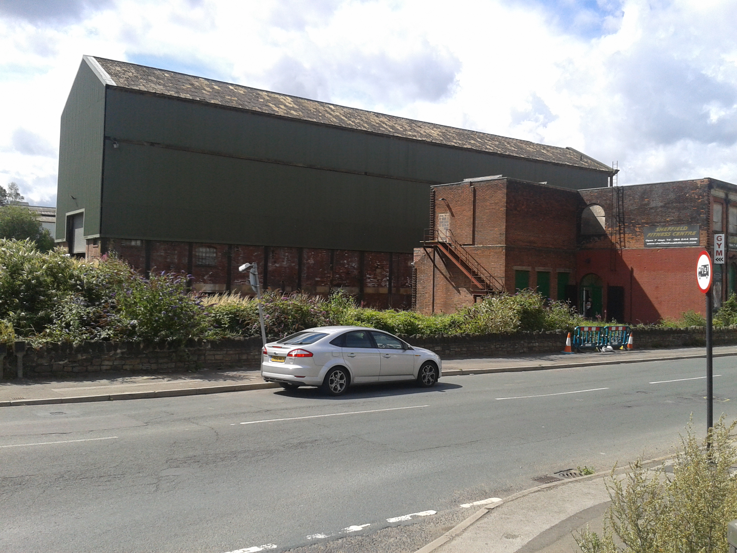 Steel Working Shop on north side of Sandersons Kaysers Darnall Works